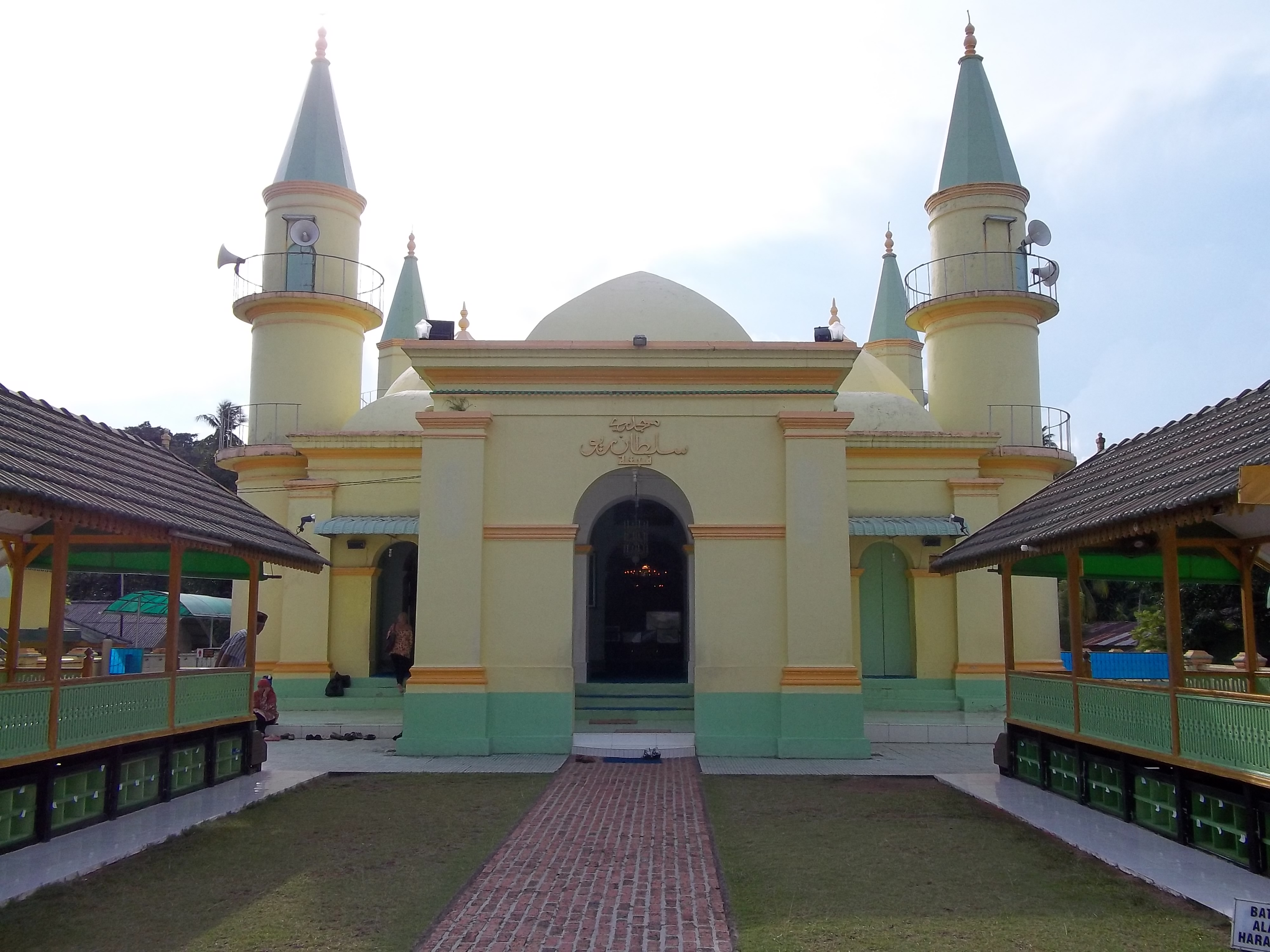 Grand Mosque of Sultan Riau